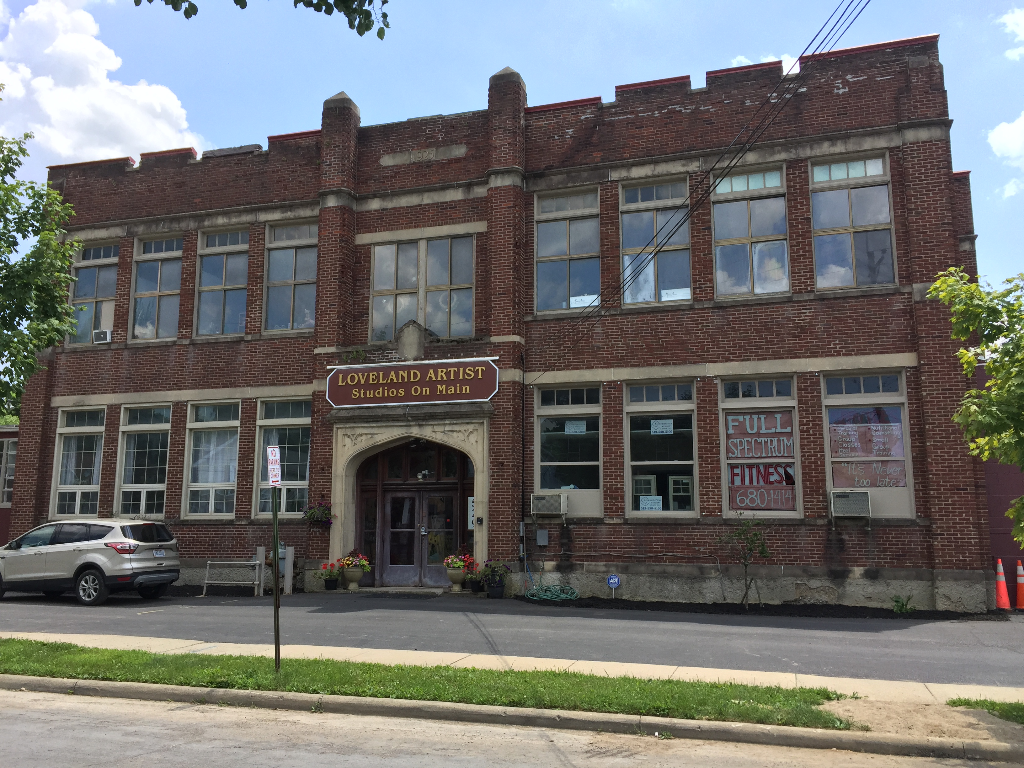 Loveland Artist Studios in Loveland, Ohio in 2019